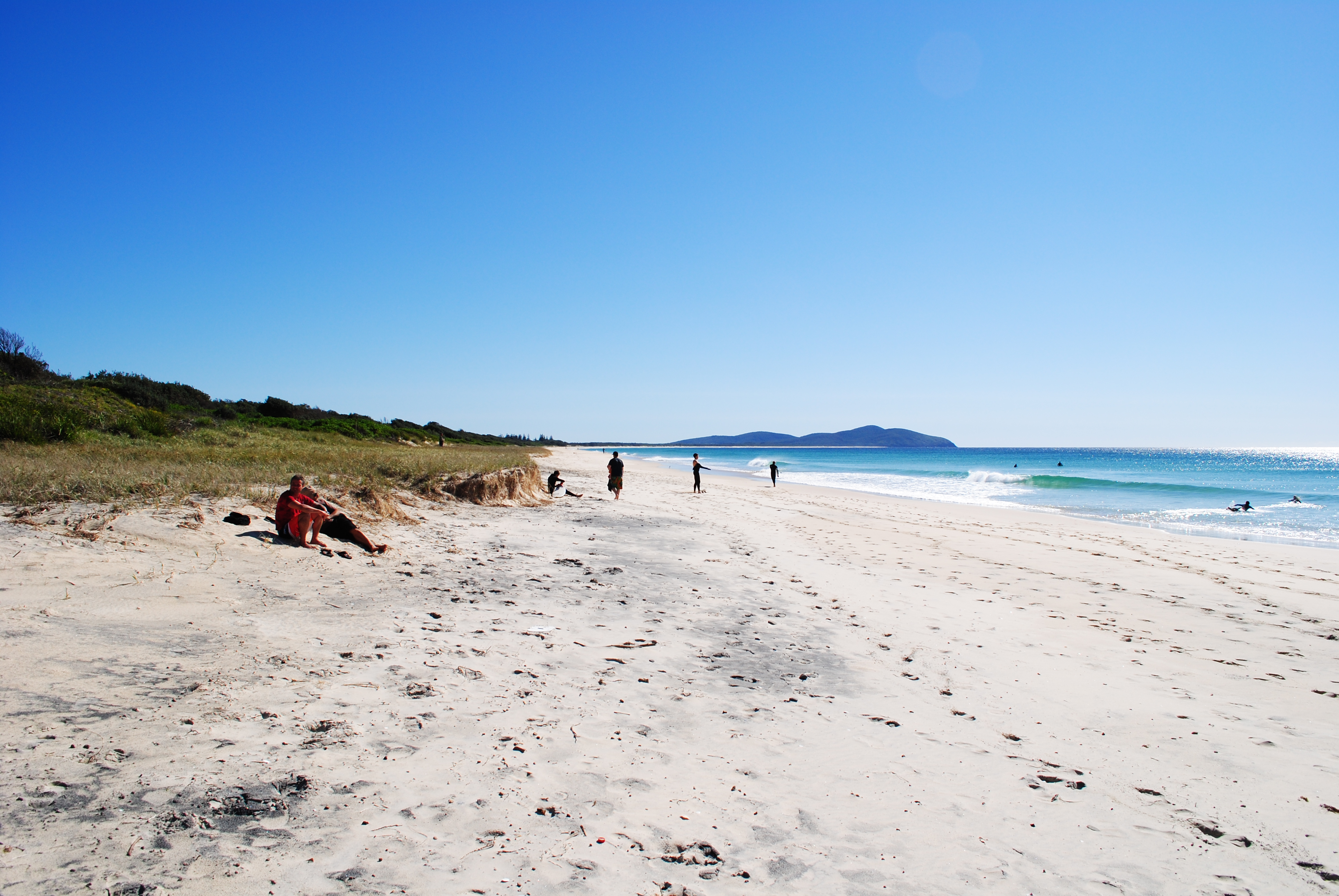 A view of Seven Mile Beach in Forster, NSW, Australia, just off Booti Booti National Park